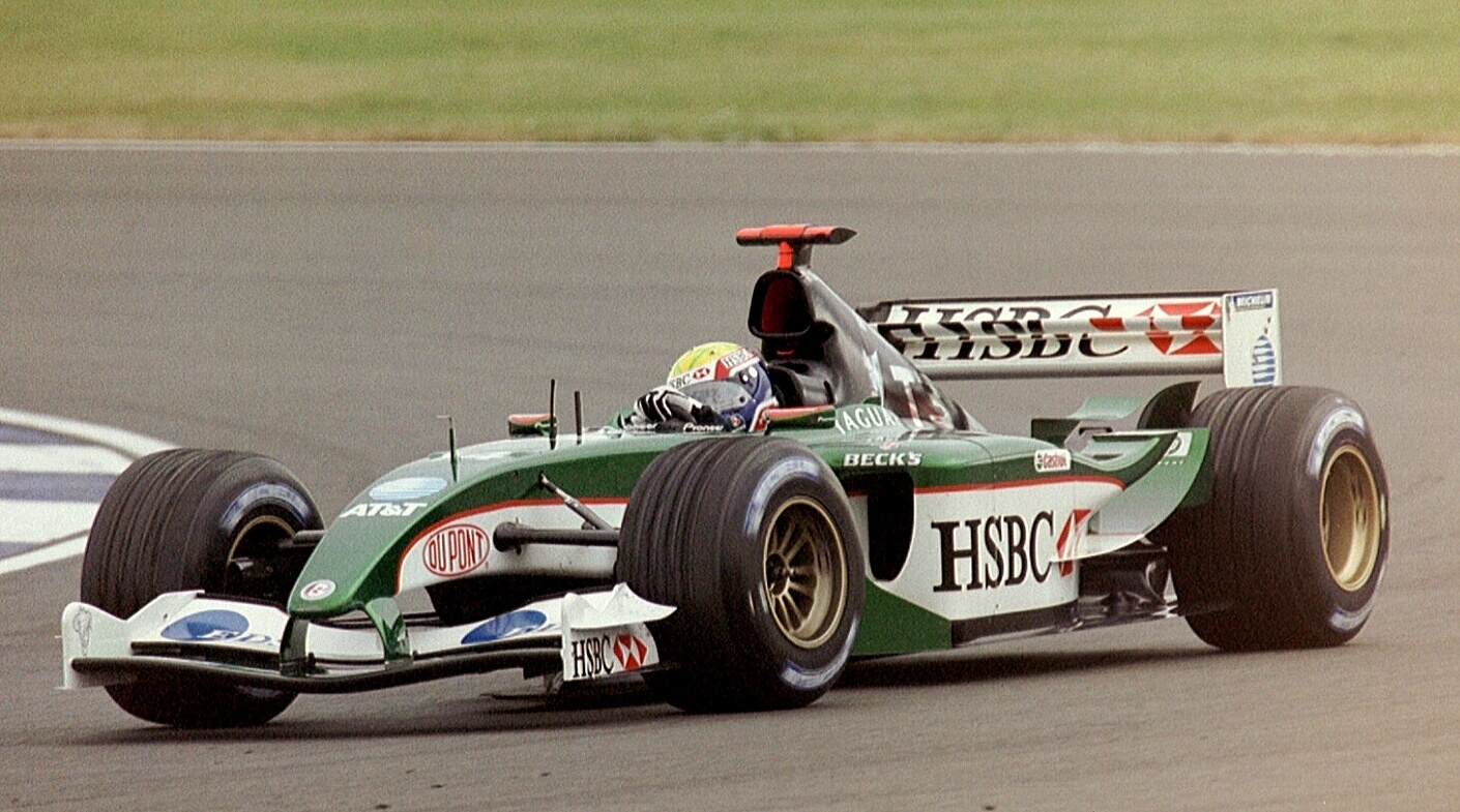 Mark Webber, driving his Jaguar Cosworth at the 2003 British Grand Prix.